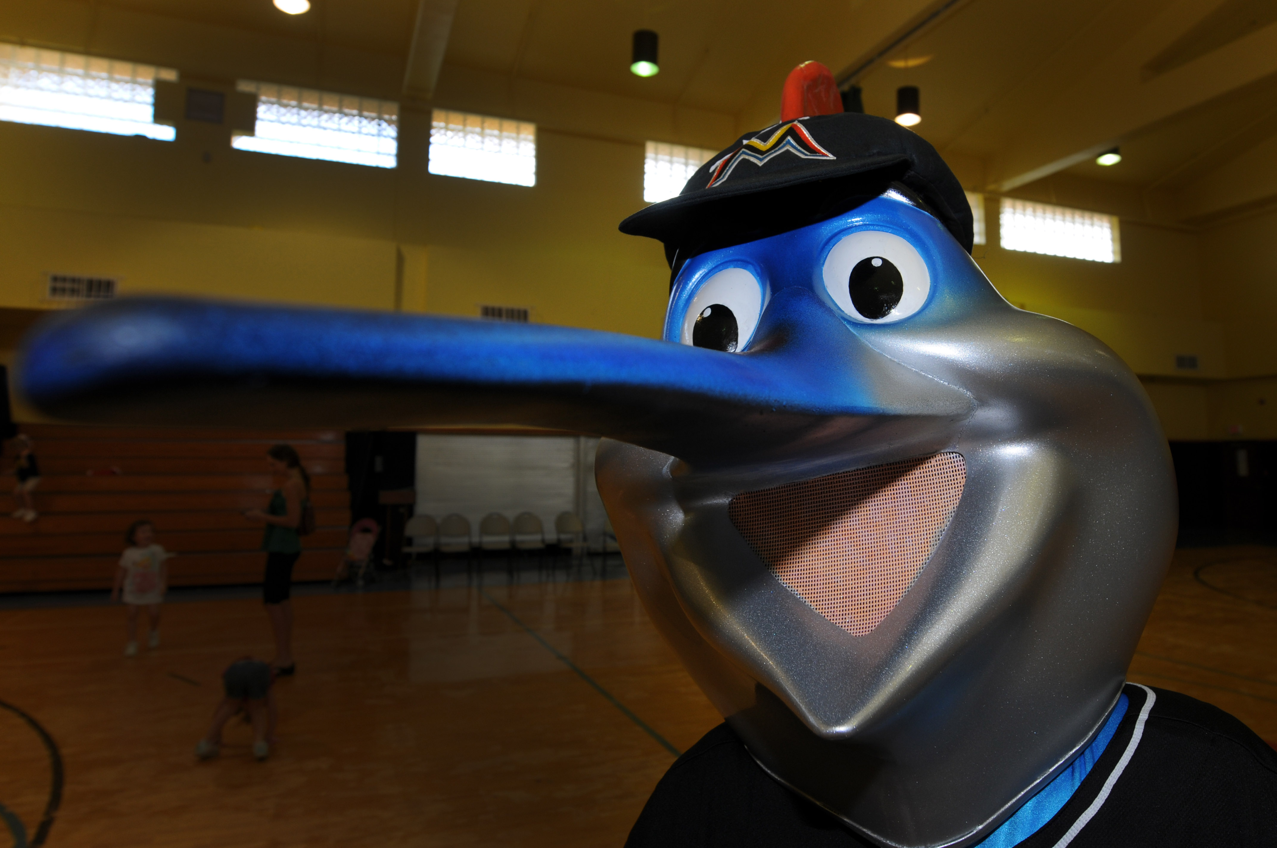 Billy the Marlin from the Miami Marlins poses for a photo during the dance clinic held at the Youth Center at Andersen Air Force Base, Guam, Dec. 9, 2011. The Mermaids taught the children a full dance routine and signed autographs and took pictures. (U.S. Air Force photo/Senior Airman Carlin Leslie)